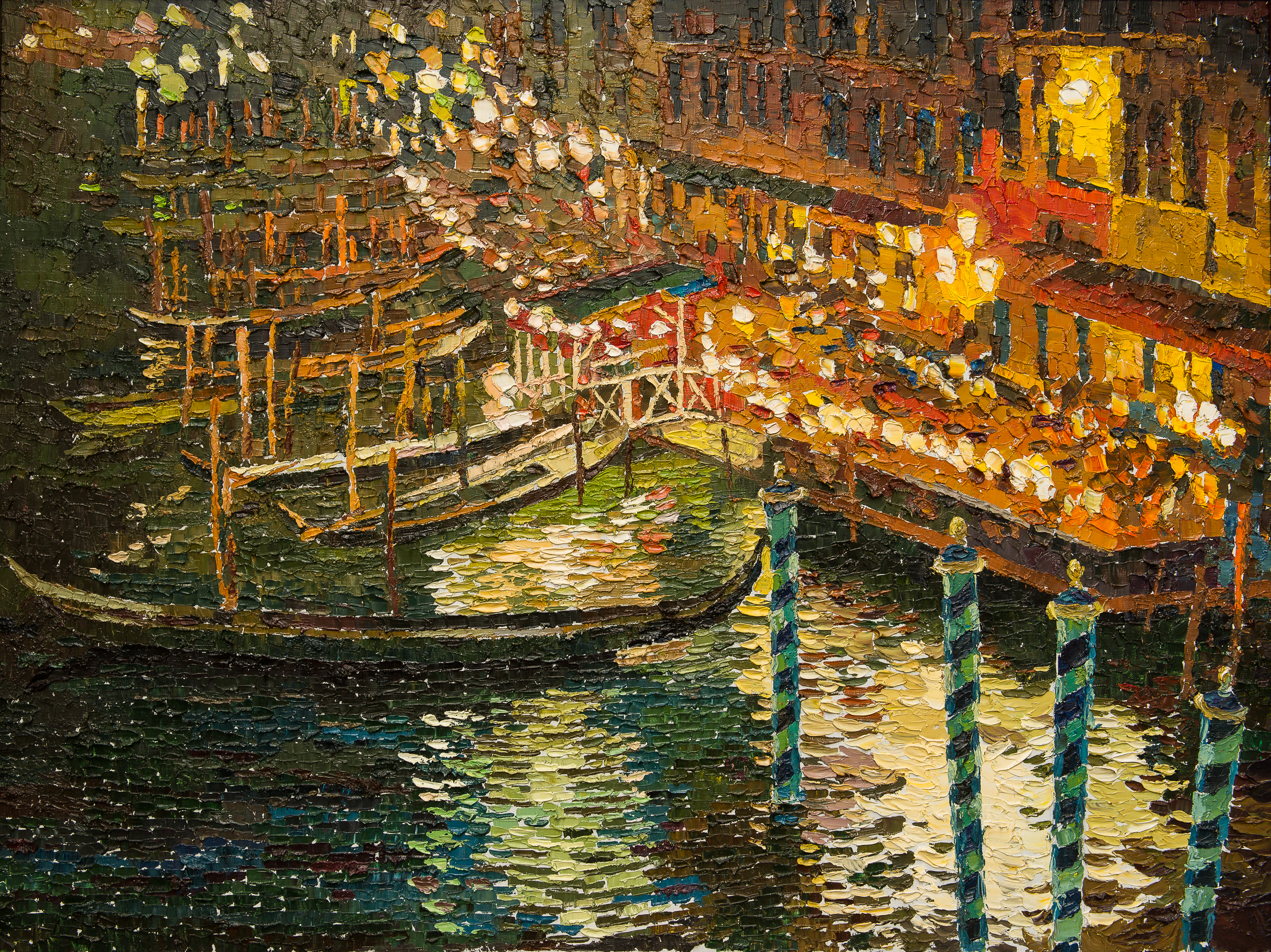 "Not boring Venice" from the cycle "Night Lights (a series of landscapes painted in Europe)". Artist: Andrey Kulagin. 2016 year